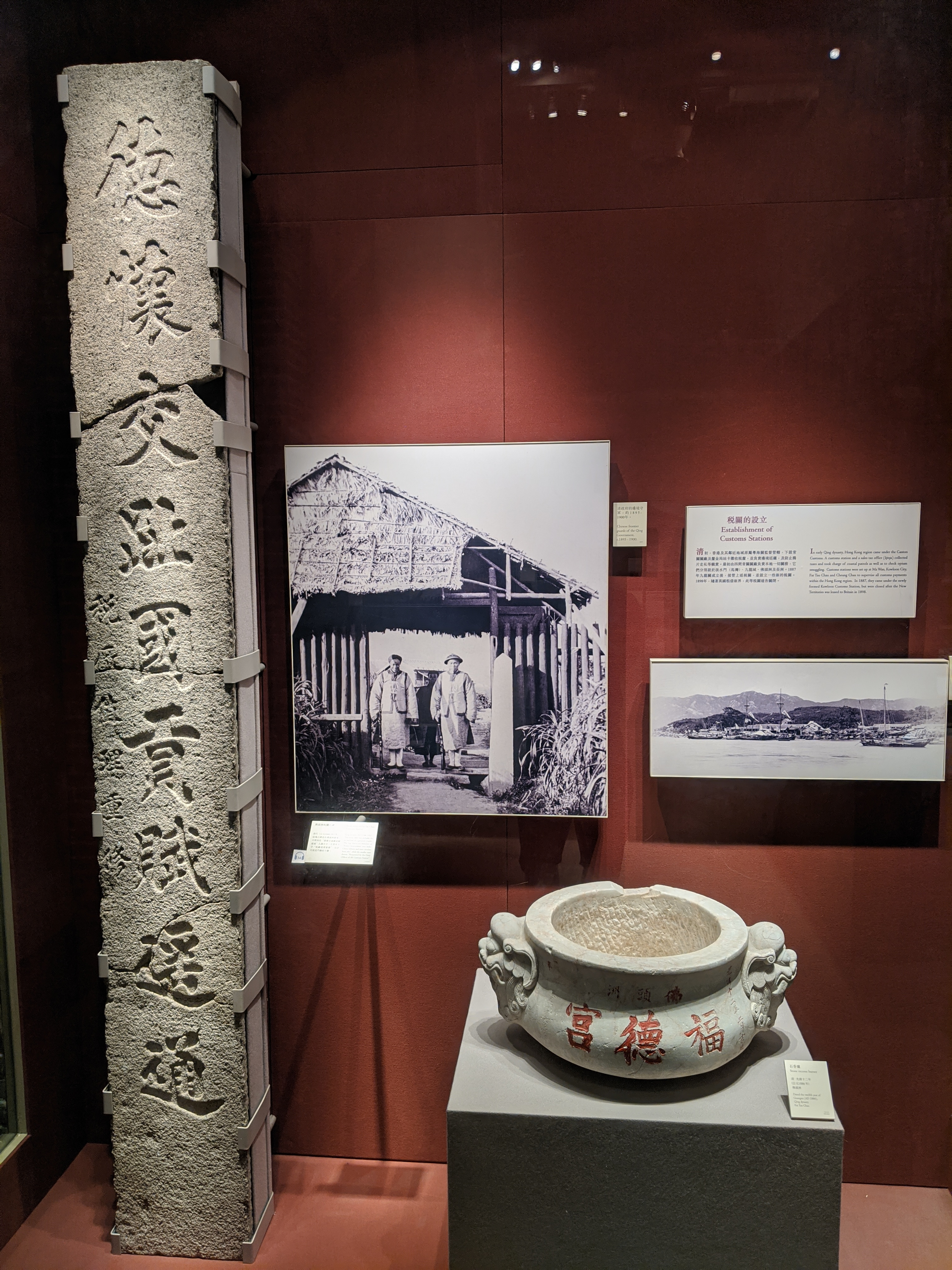 Personally taken May 2020. To be used at Fat Tong Chau